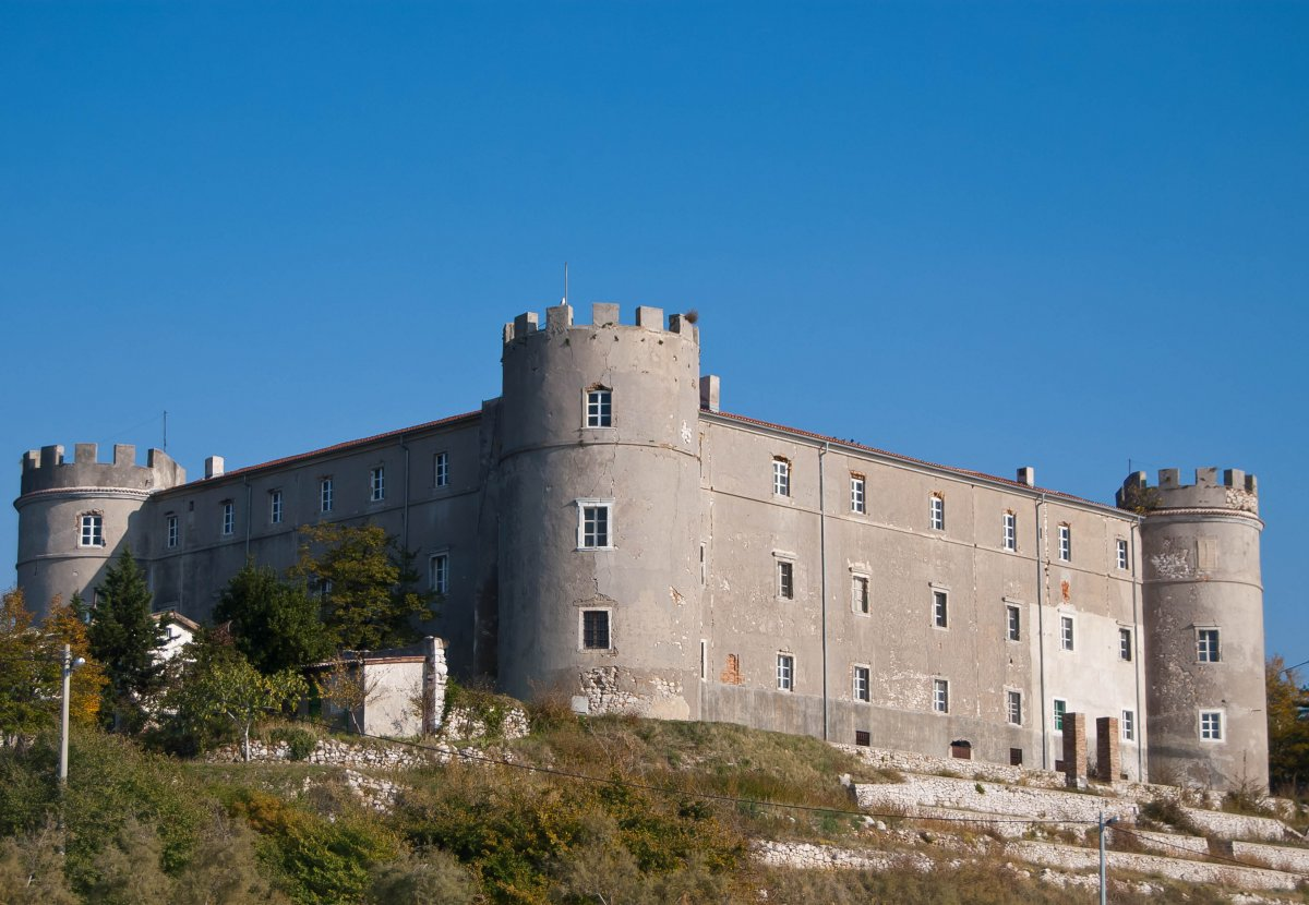 Z-789